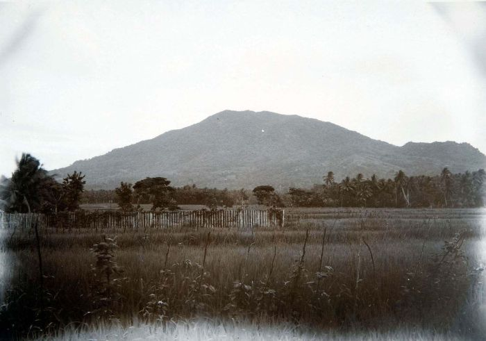 The Gunung Karang